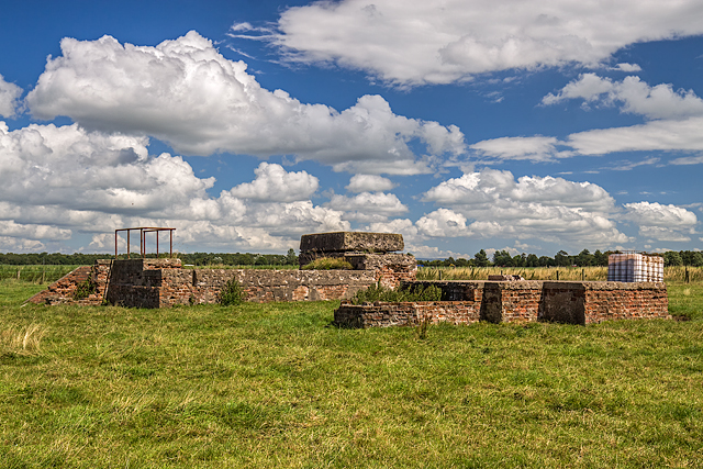 WWII Cheshire, RAF Cranage, near Middlewich - Airfield Battle HQ & LAA Emplacement (26)